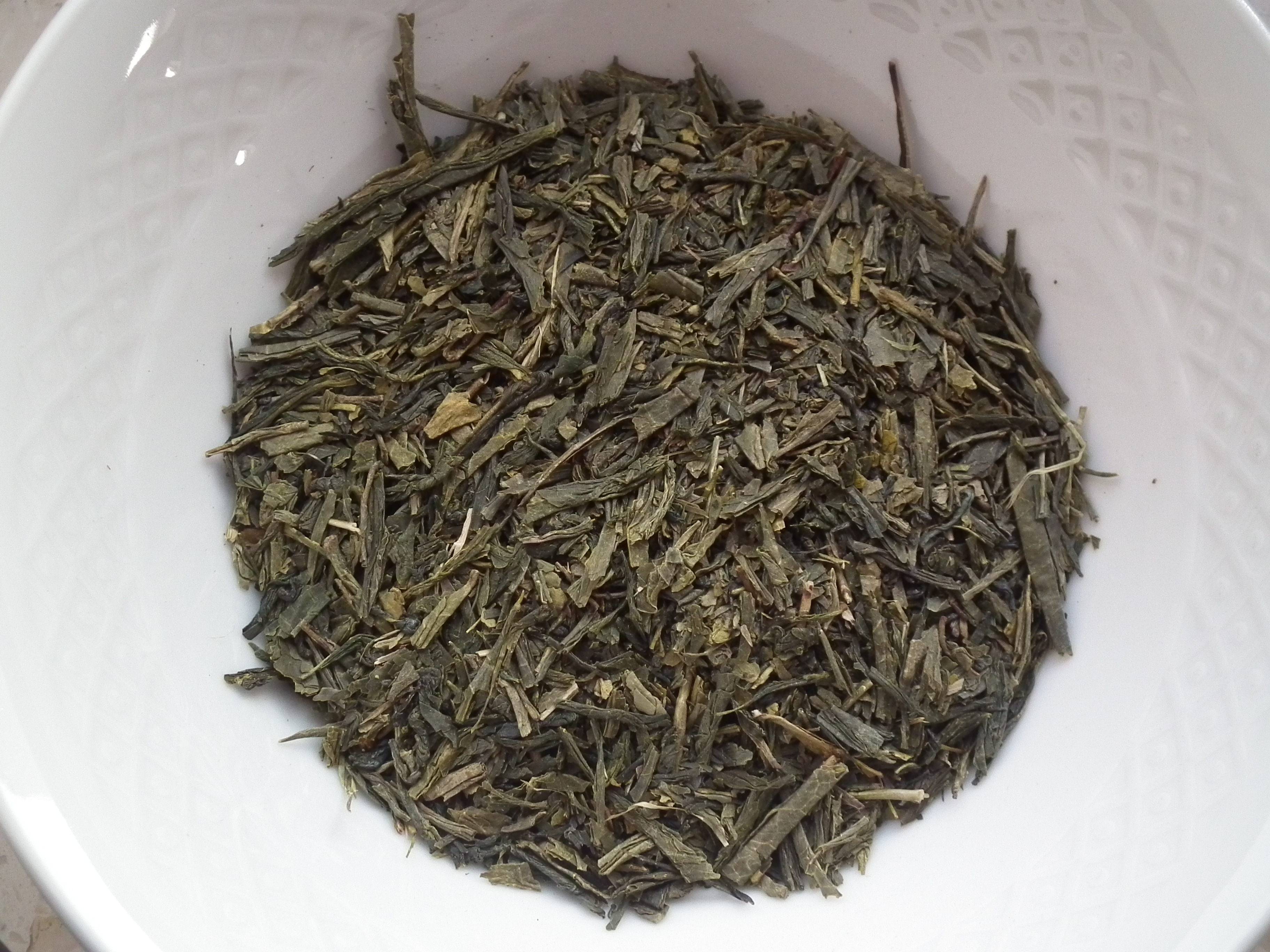 Green Tea Sencha